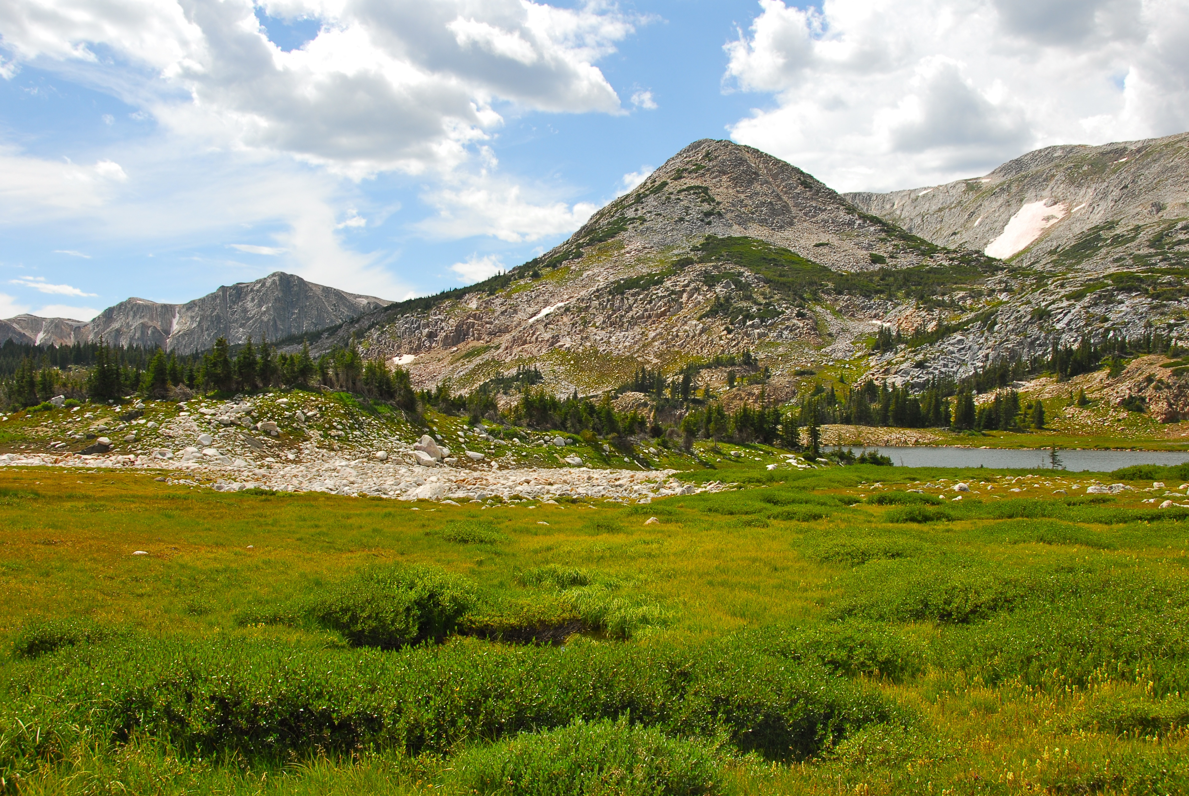 Snowy Range — in Albany County, Wyoming. 27